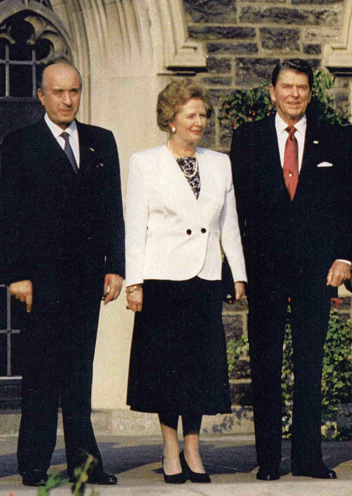 Ciriaco De Mita, Margaret Thatcher, Ronald Reagan, 14th G7 summit